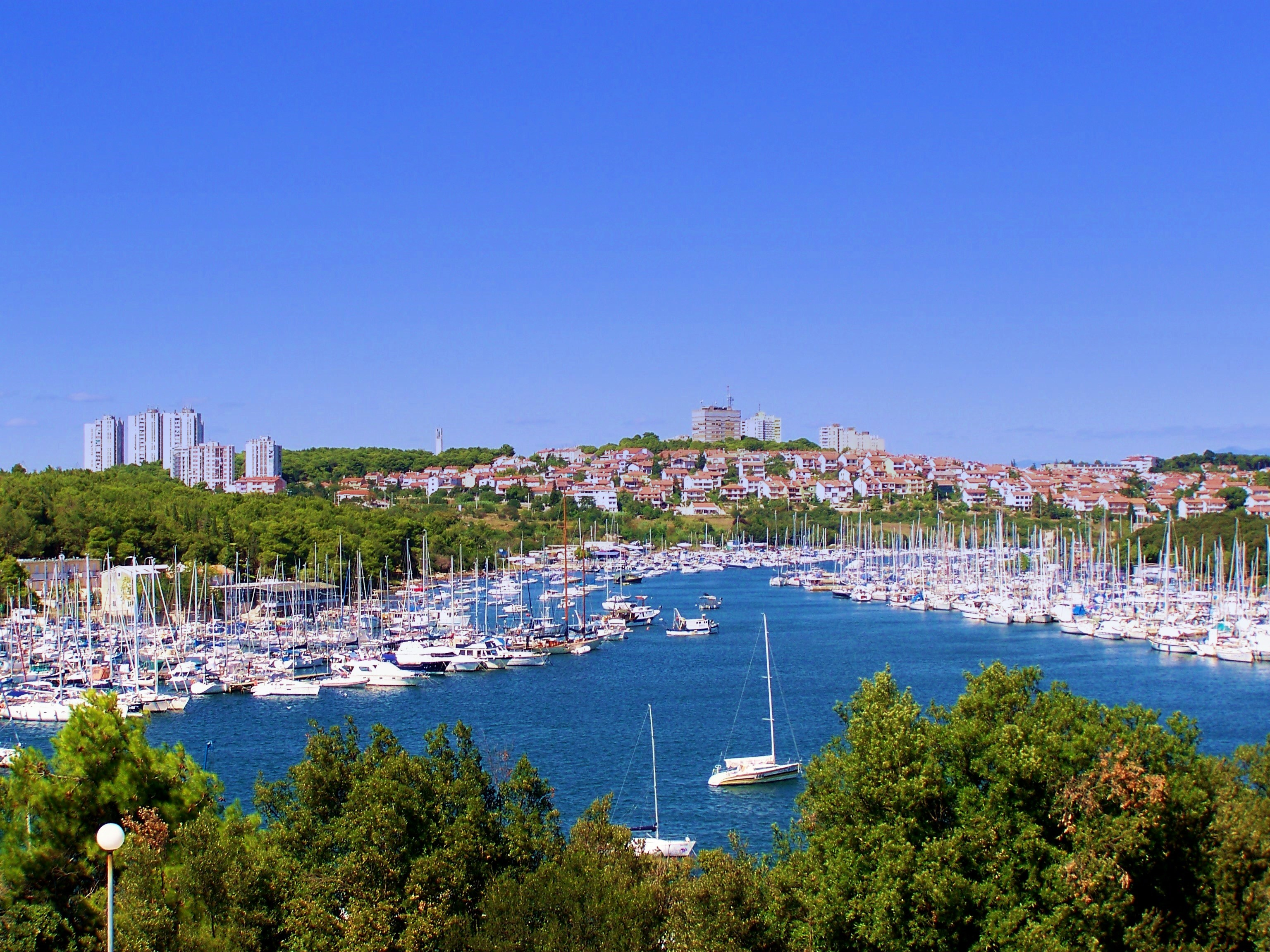 Veruda Marina in Pula, Croatia